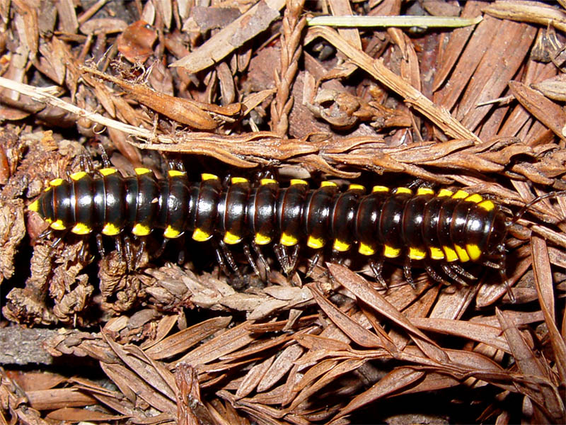 Description Harpaphe haydeniana, (Phylum: Arthropoda, Class: Diplopoda, Order: Polydesmida). Date April 10, 2004 Location Pescadero Creek County Park, San Mateo Co., California Photographer Franco Folini